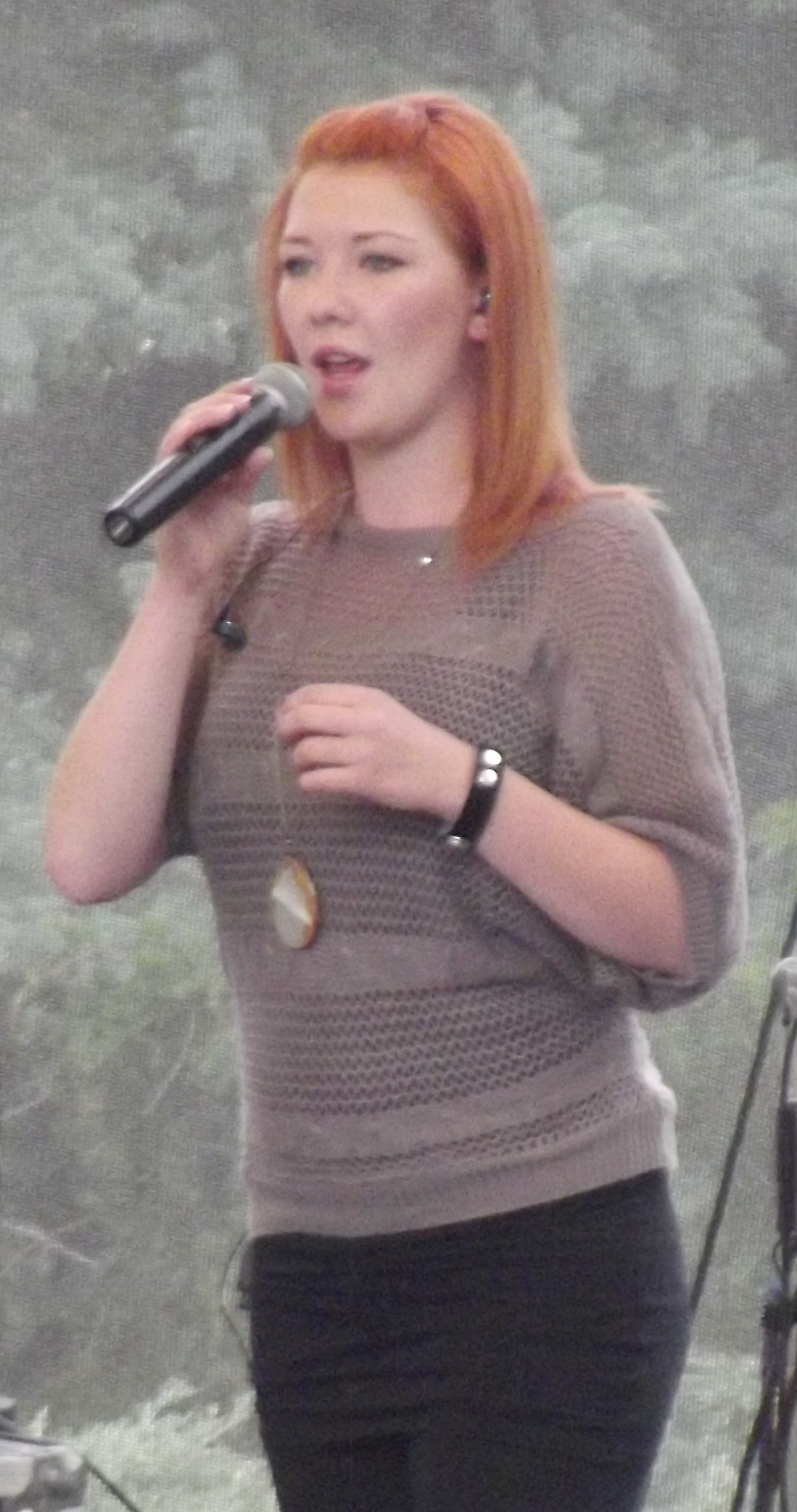 Debbi at the 858th opening of spa season in Teplice